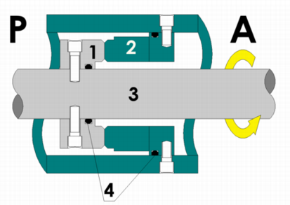 Schematic of shaft single mechanical seal